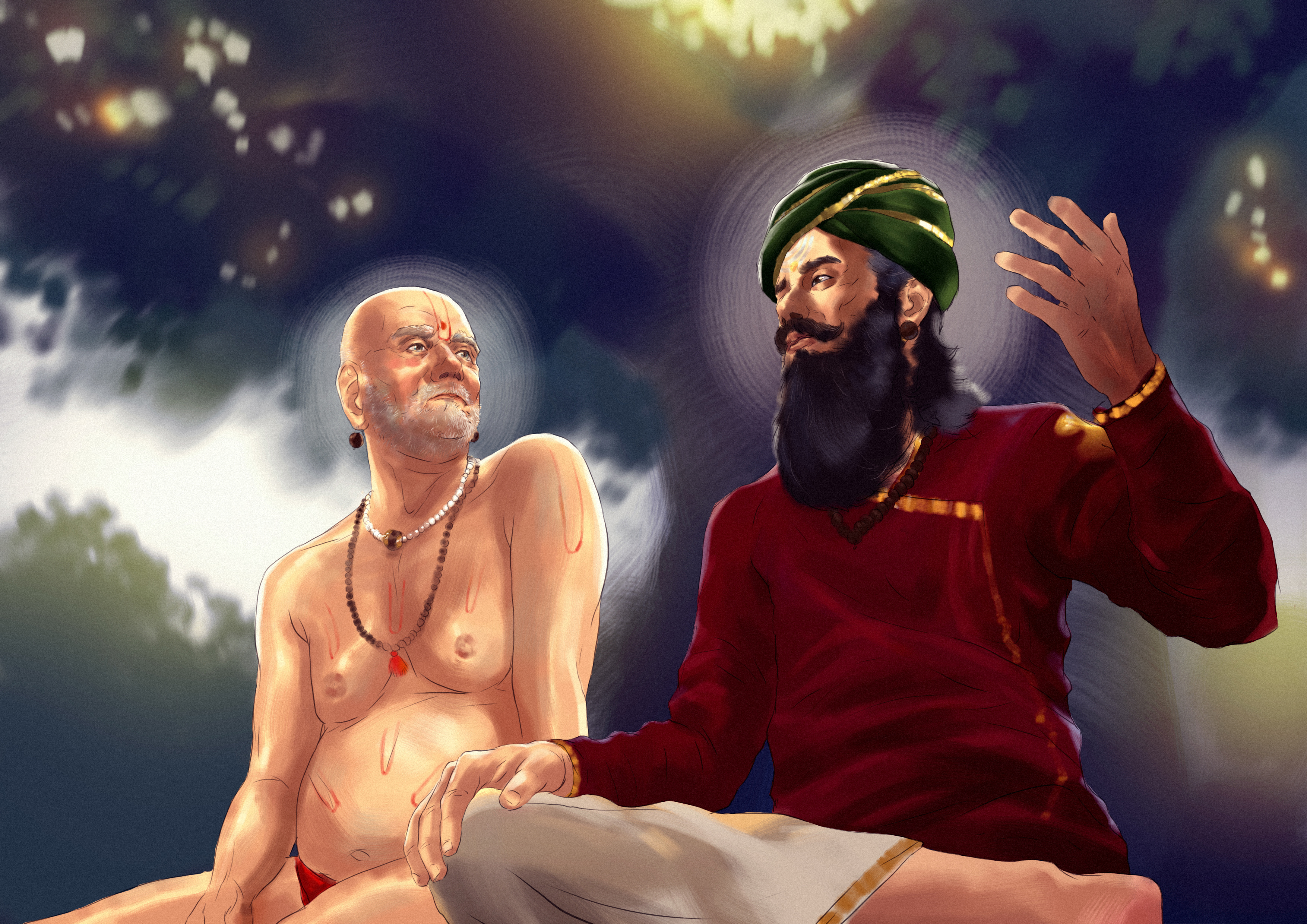 Swami Samarth and Manik Prabhu